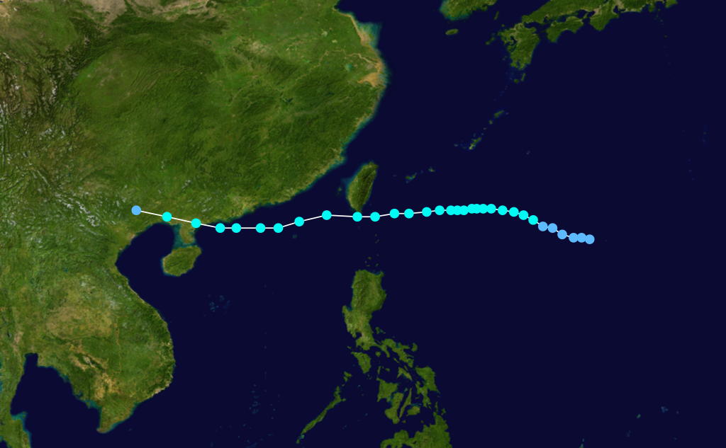 Tropical Storm Wynne 1984 track. Uses the color scheme from the Saffir-Simpson Hurricane Scale.